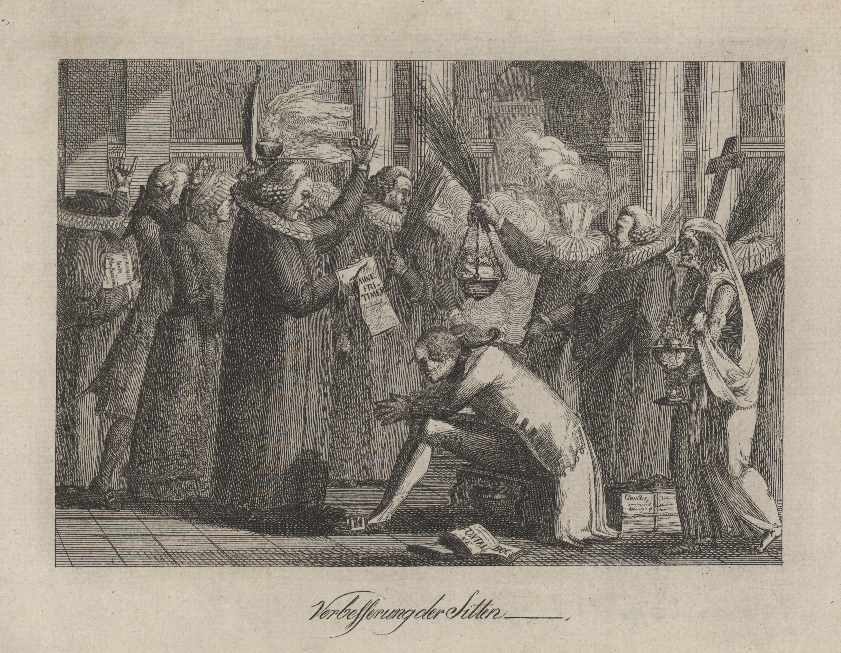 Etching from 1784 - Author Thomas Christopher Bruun (1750-1834) is punished for the publication of "Mine Fritimer" ...